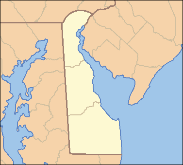 Locator Map of Delaware, United States